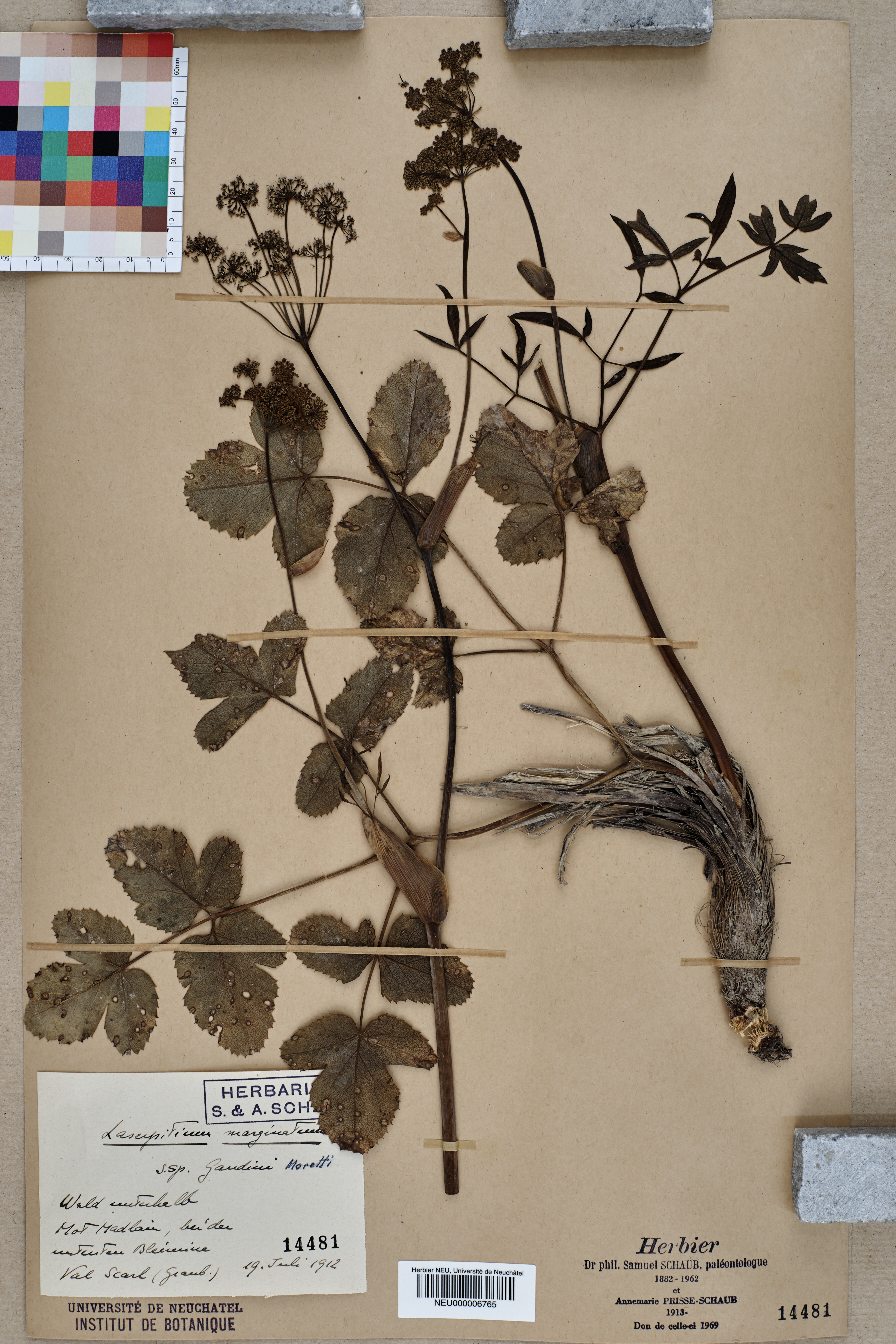 Dried pressed specimen of Laserpitium gaudinii